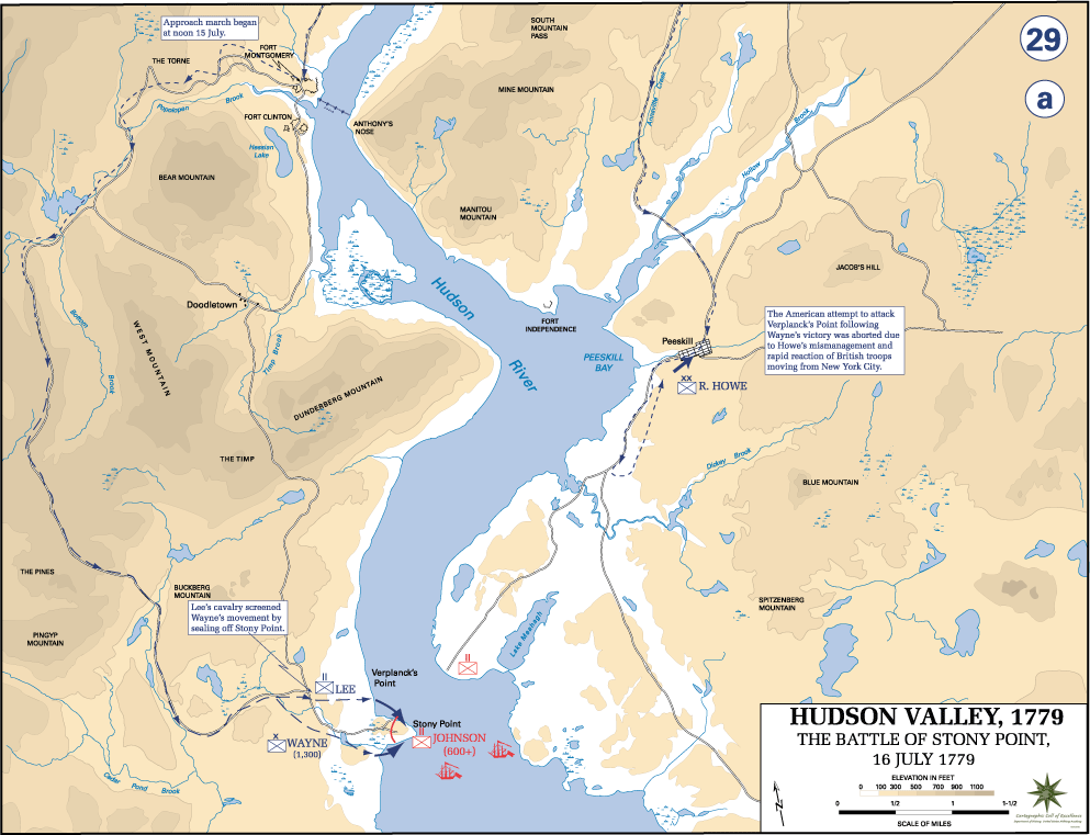 State of the Battle of Stony Point